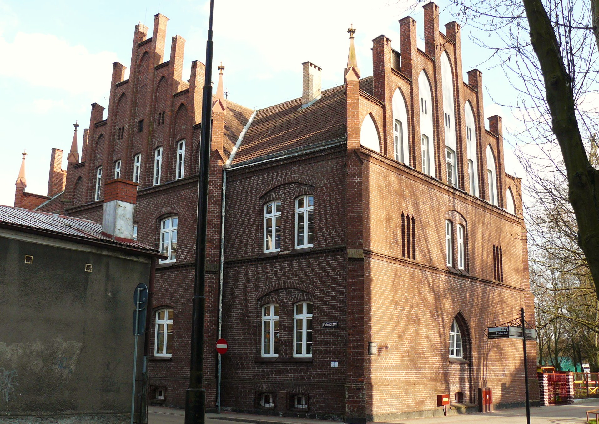 Szczecinek, Director House.